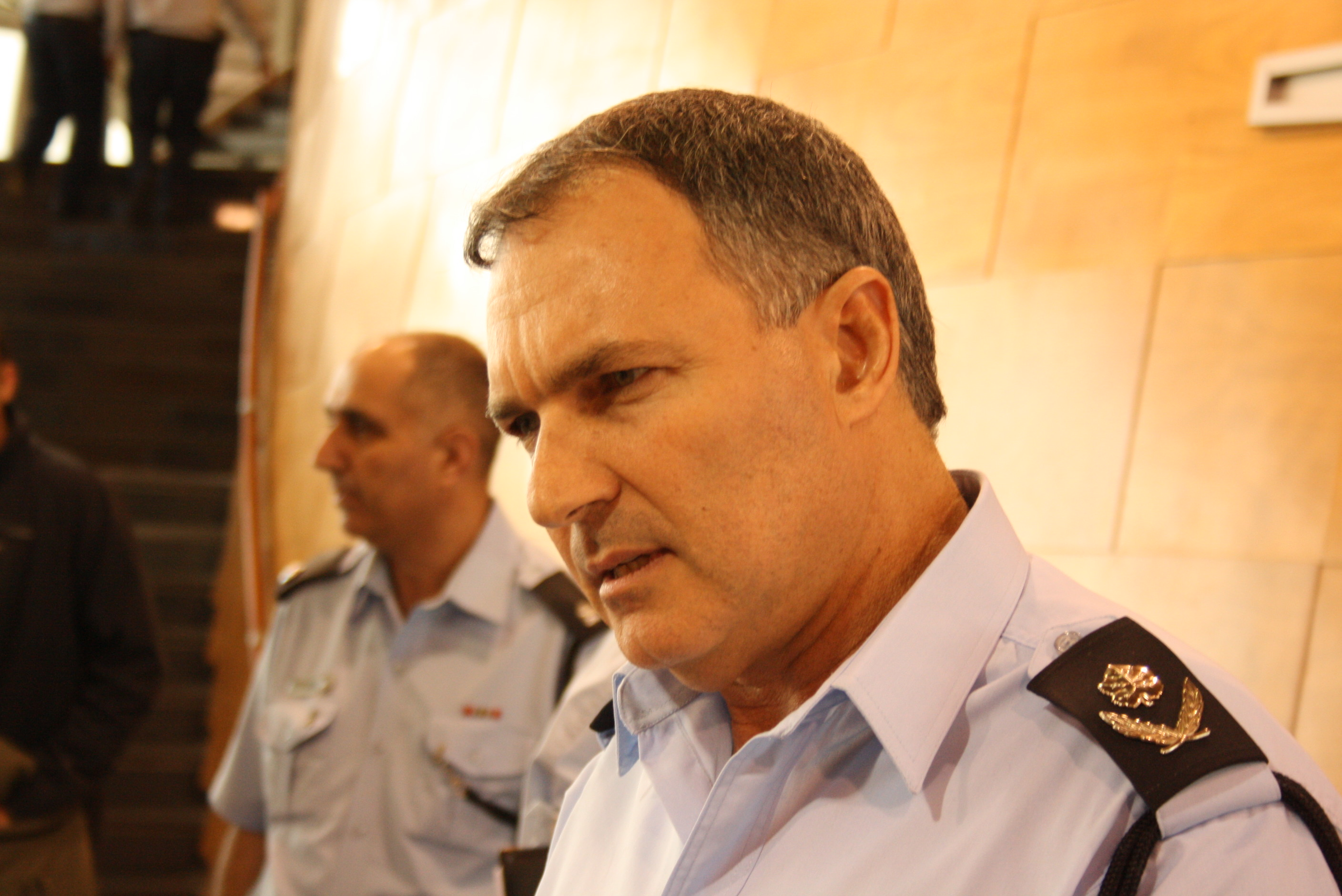 Chief of Israel Police Yohanan Danino (front) in 2011.